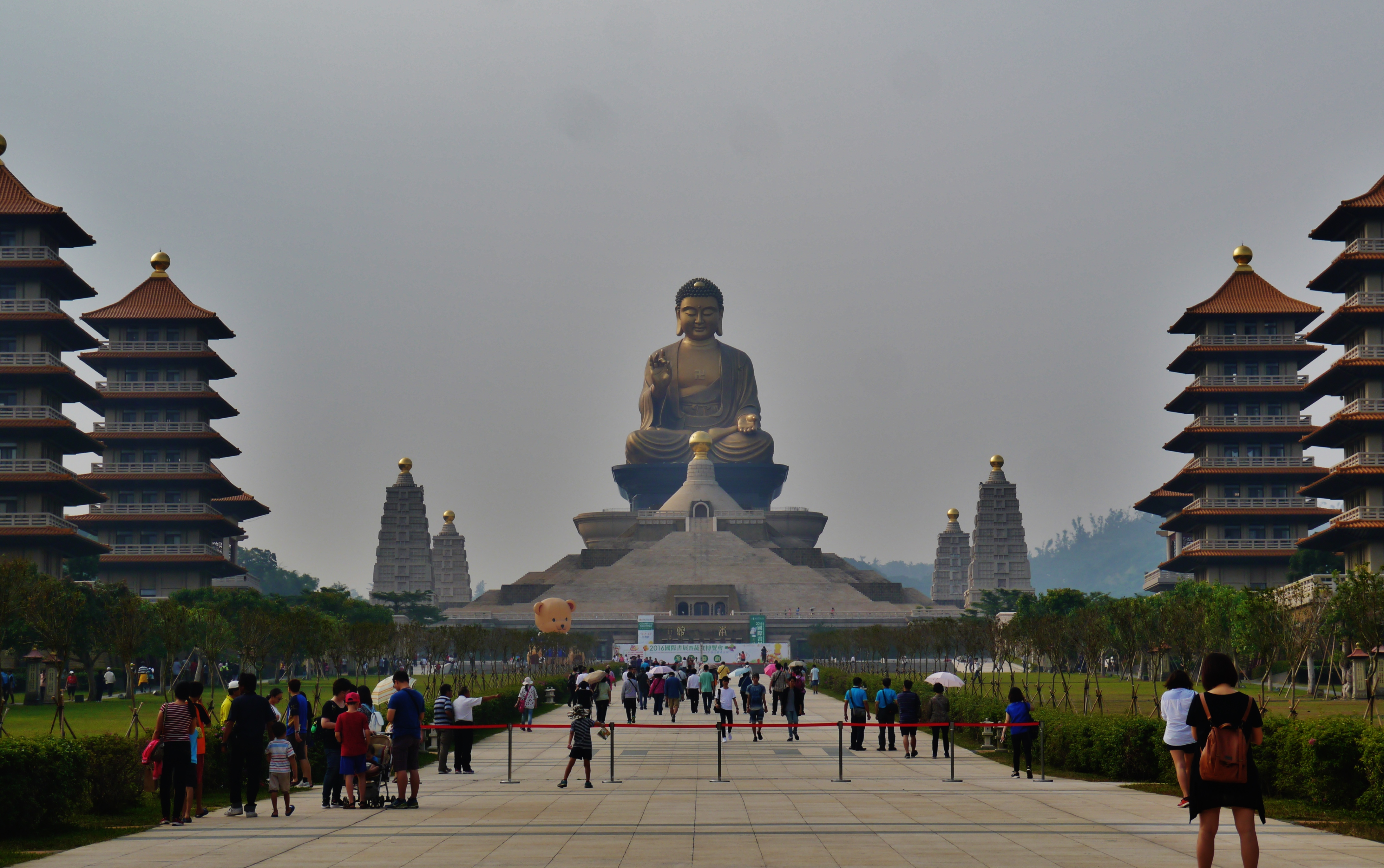 Fo Guang Shan Memorial Center, Kaohsiung, Taiwan